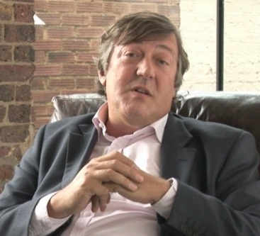 Image of Stephen Fry Wikidata has entry Q192912 with data related to this item.